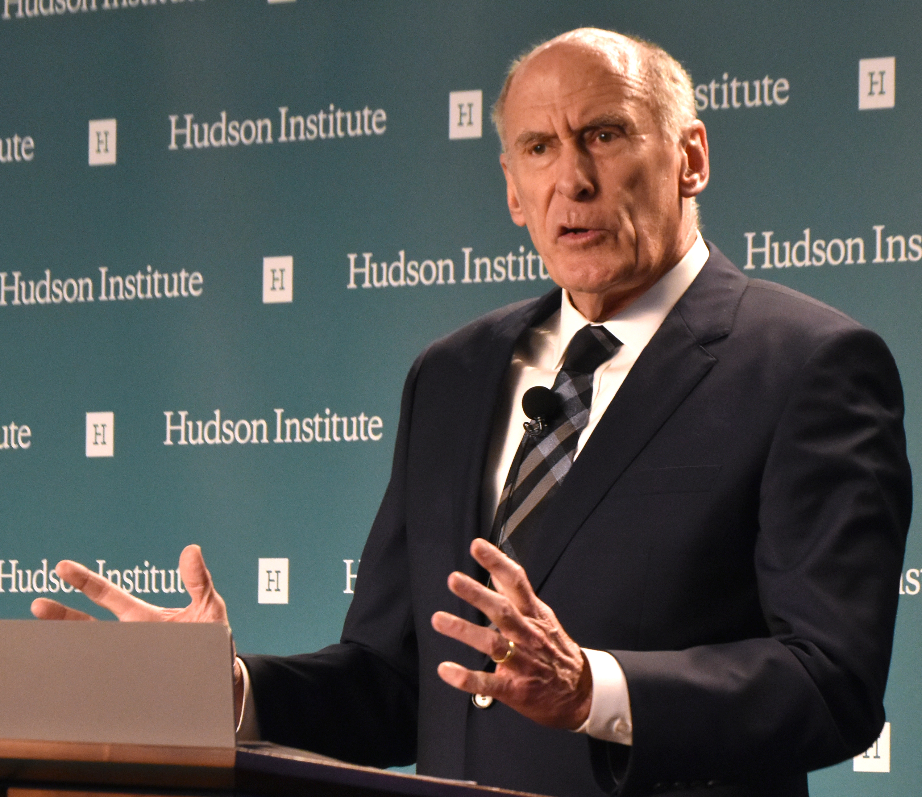 Director of National Intelligence (DNI) Dan Coats speaks at the Hudson Institute in Washington, DC